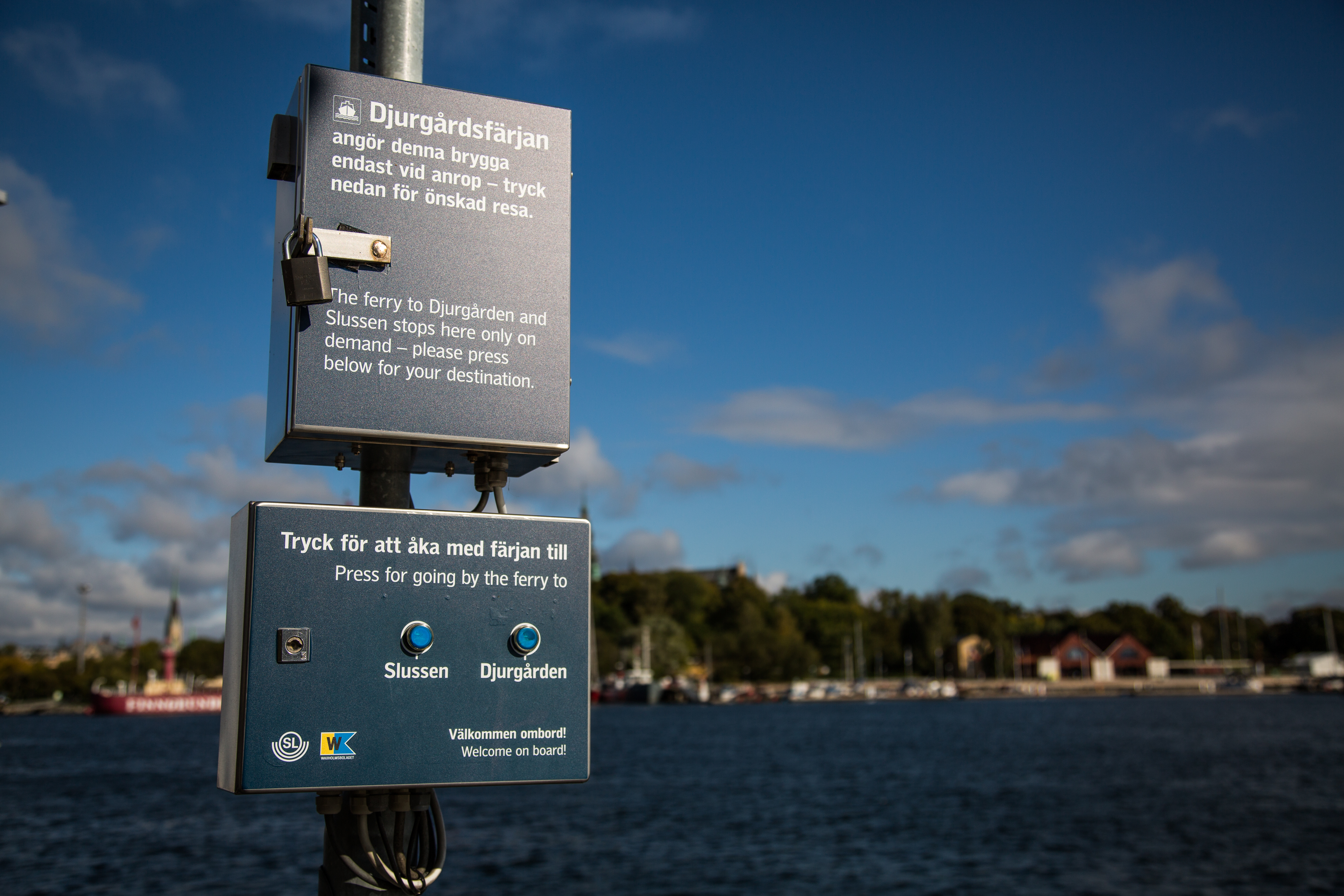 A push of a button calls the Djurgårdsfärjan ferry to Djurgården from Skeppsholmen, Stockholm, Sweden.